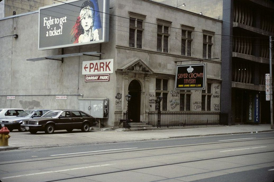 The Silver Crown Tavern at 25 Richmond Street West, Toronto, Ontario, Canada. It closed in 1989, and the building was demolished shortly thereafter for the Bay Adelaide Centre. The old Simpsons Department Store parking garage is partially visible on the right side of the image.